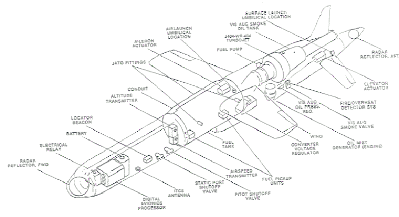 Diagram of a BQM-74E Chukar target drone